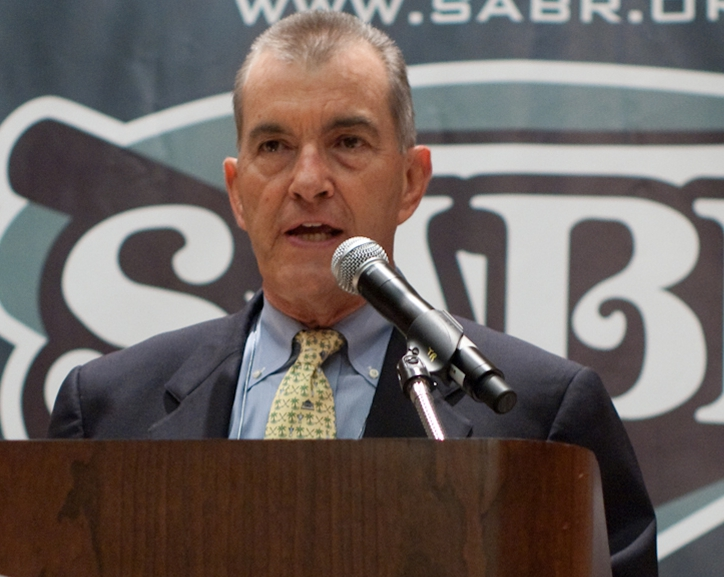 Former Atlanta Braves GM John Schuerholz at a SABR awards luncheon in 2010. Photo courtesy of The SABR Office, via Flickr. This file has been extracted from another file: John Schuerholz 2010.jpg